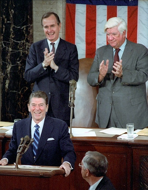 President Reagan addresses Congress and the Nation on the Program for Economic Recovery from the U.S. Capitol (First speech after the assassination attempt).